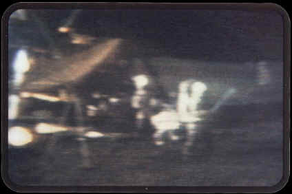 This was copied from a website called "Who mourns for Apollo?" at this site: [1]